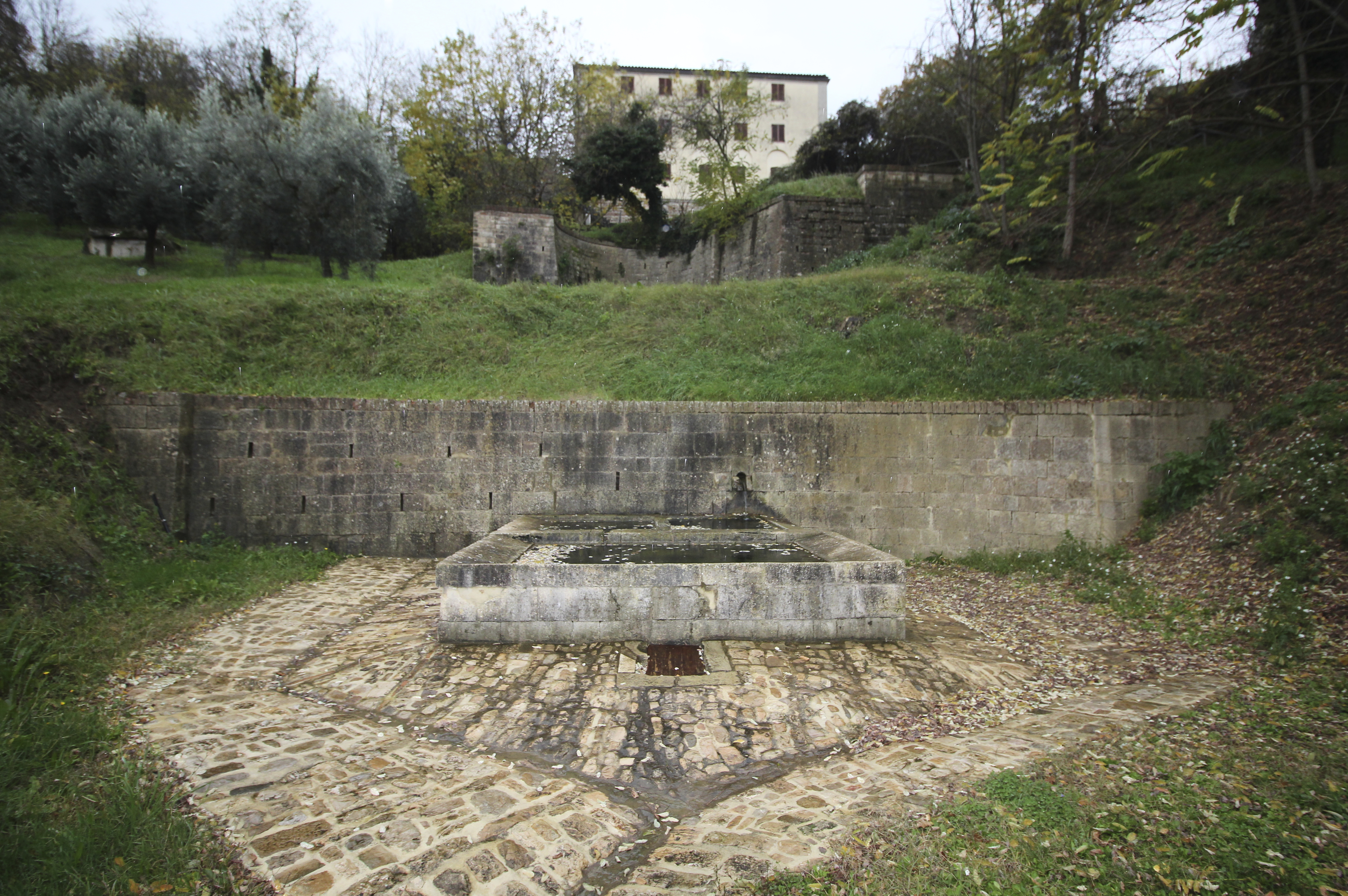 Fountain Fontana dei Bottini, Todi, Province of Perugia, Umbria, Italy